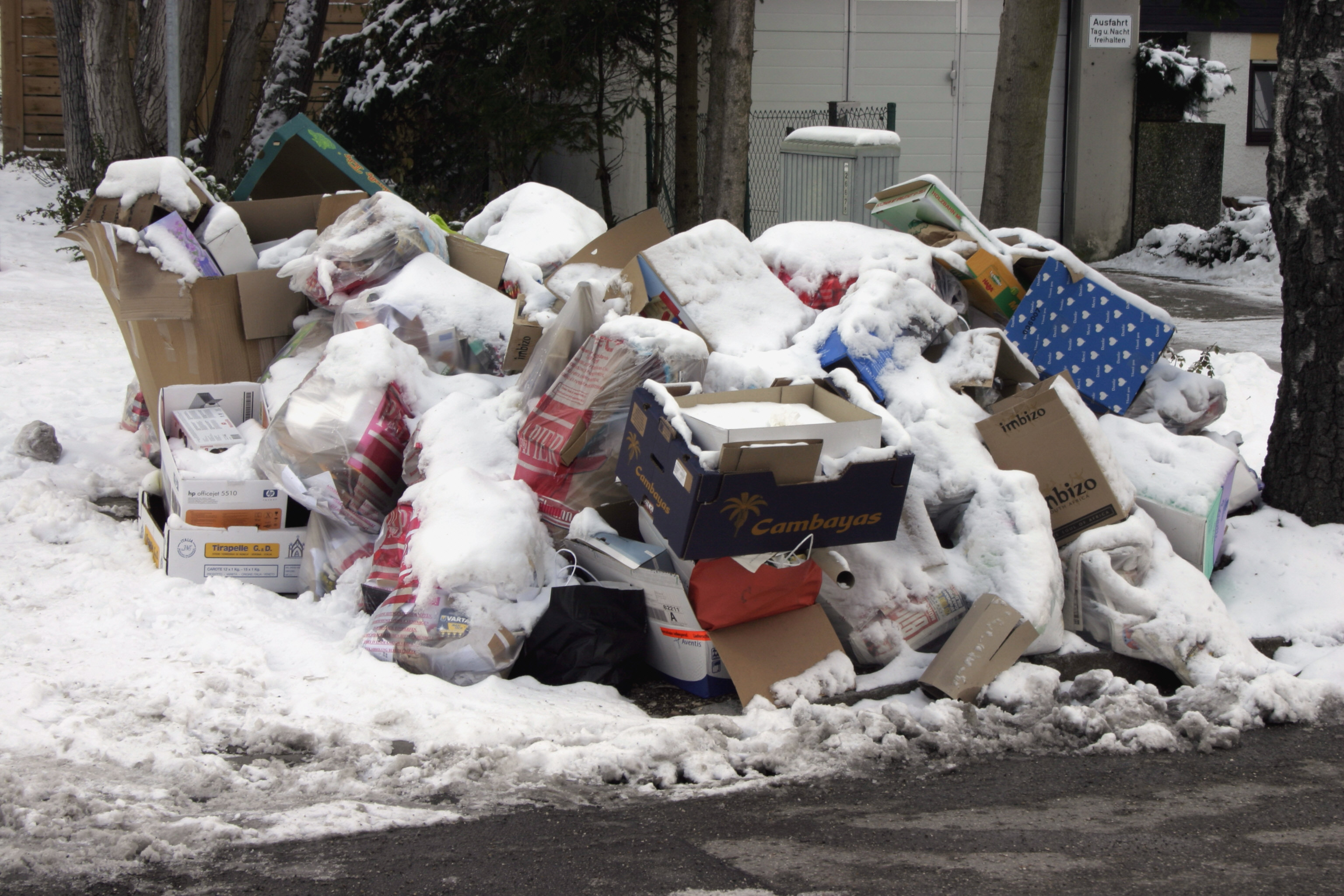 Snow covered garbage